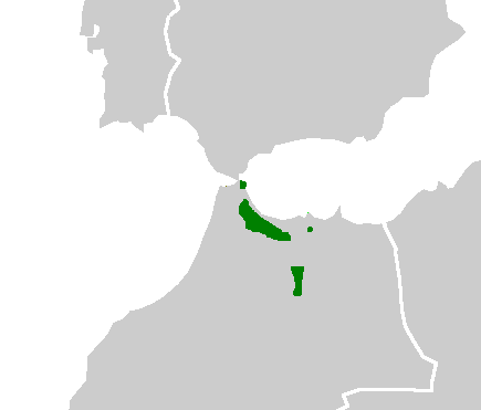 Distribution of Alytes maurus